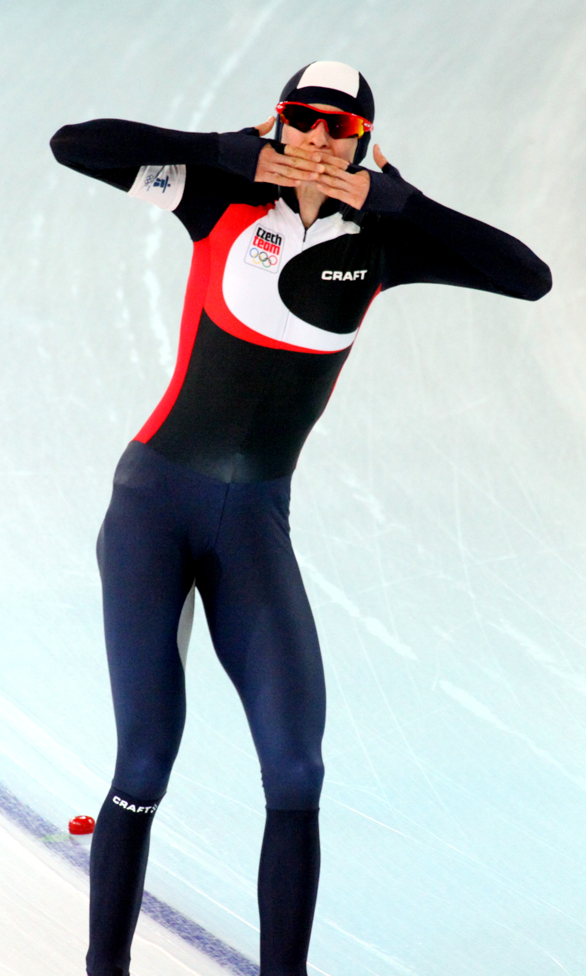 Martina Sáblíková - Women's 5000 meter finals at Vancouver 2010 Olympics